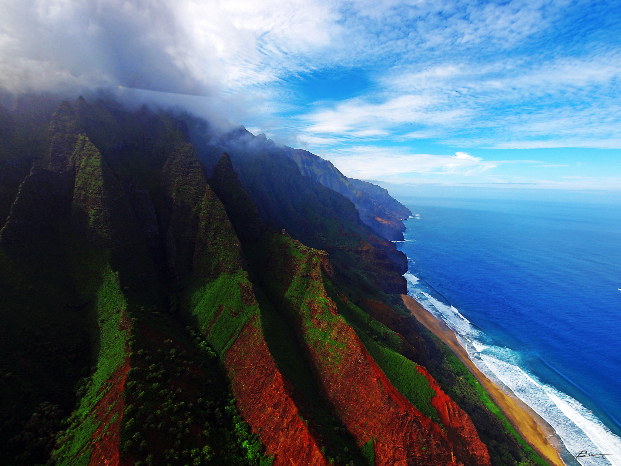 Aerial view of the coast of Nā Pali Coast State Park in Kauai, Hawaii with the photo's color saturation cranked way too high.